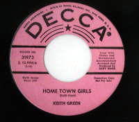 image file of rare Keith Green record